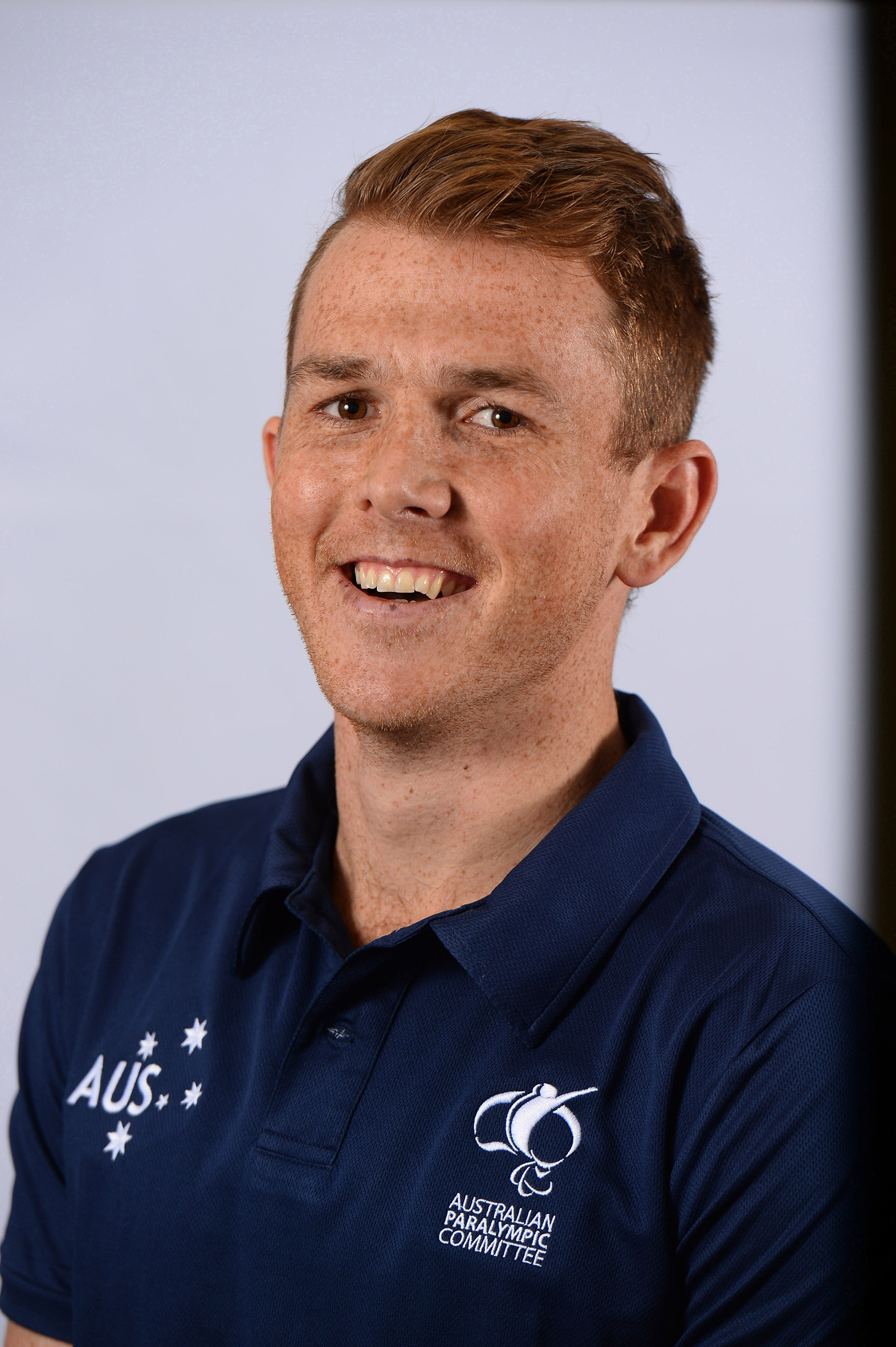 Portrait photograph of Brad Scott taken at team processing session for shadow members of 2016 Australian Paralympic team